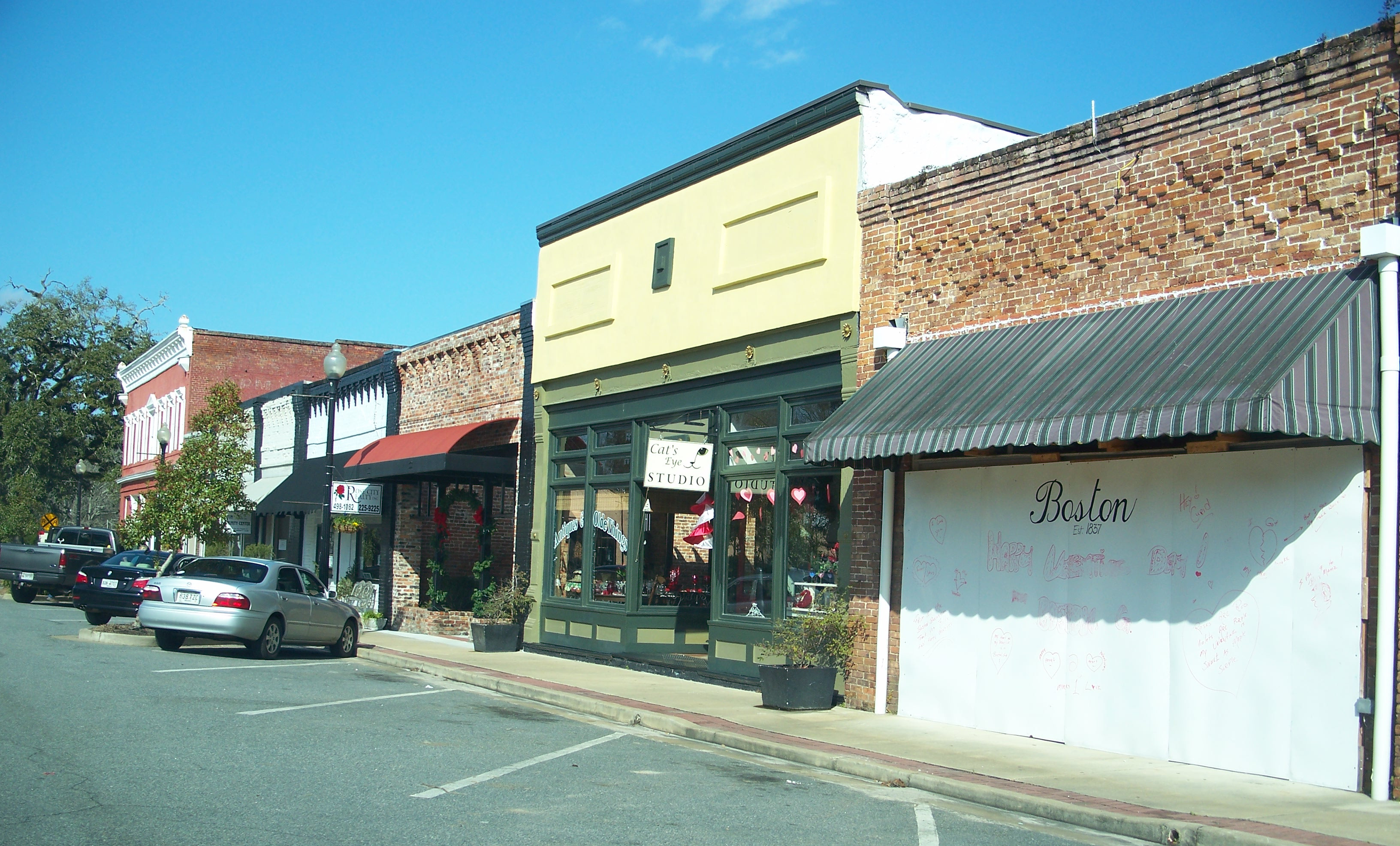 Boston, Georgia: Boston Historic District: Street in the district.